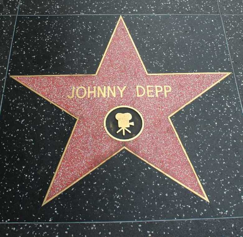 Johnny Depp's star on the Walk of Fame in Hollywood, California USA.